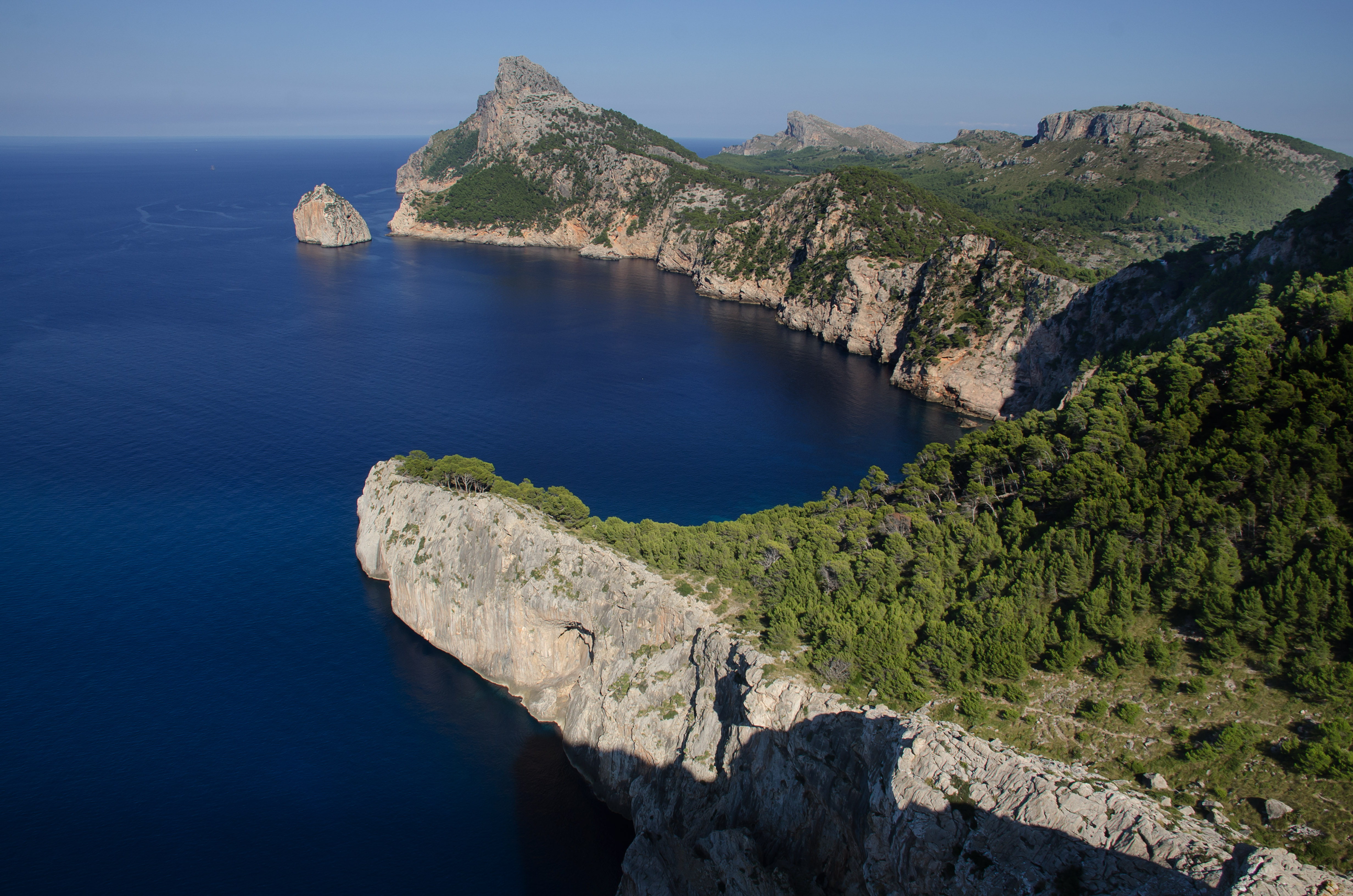 El Fumat with es Colomer island, in Formentor. View from Punta de la Nao, Mallorca